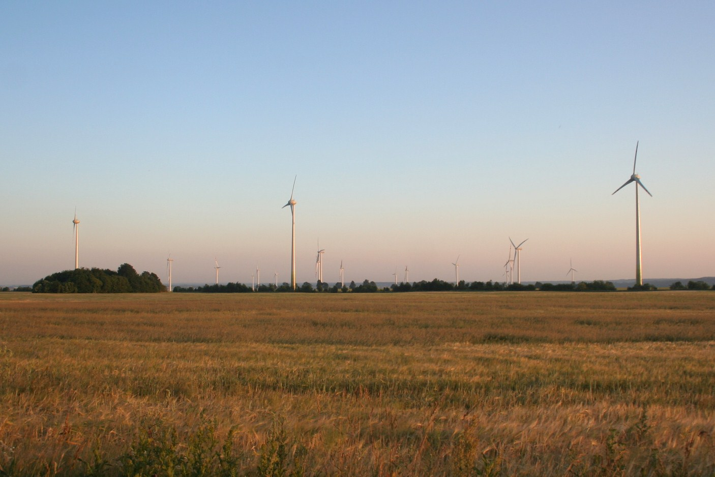 Wind farm Swarzewo.